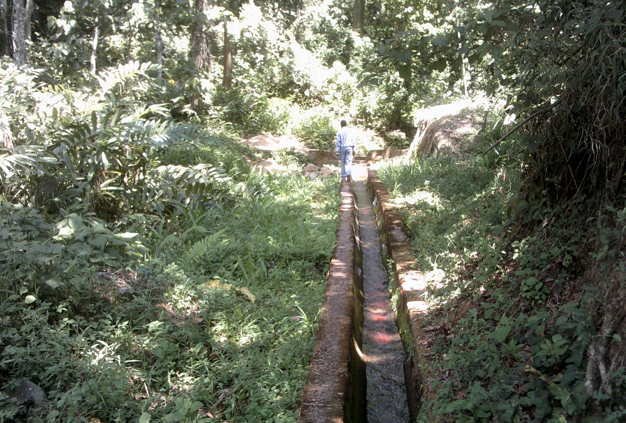 This channel, cut into a steep hillside, was constructed under Dr Laws and still feeds drinking water to Livingstonia.